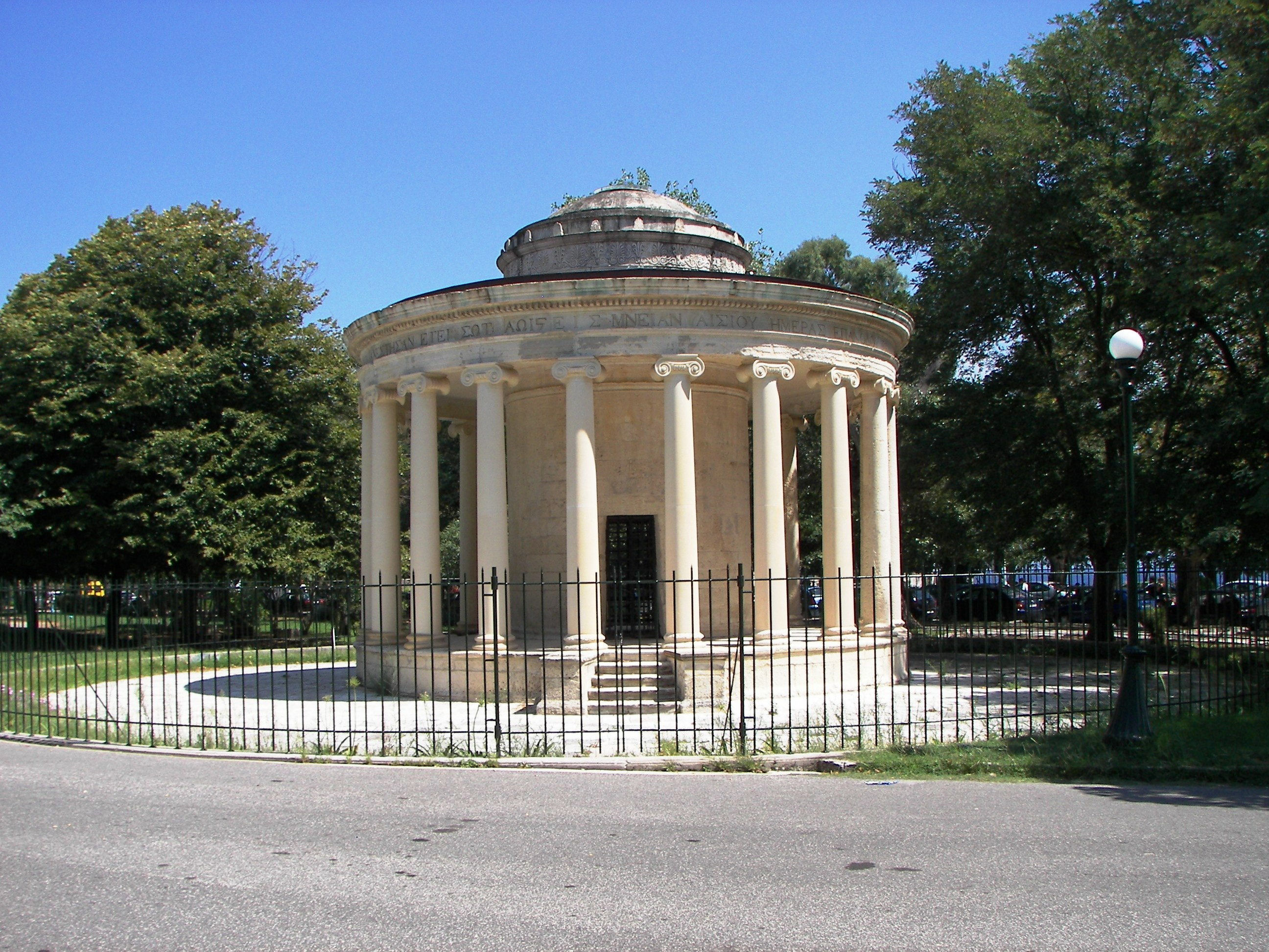 Please see filename